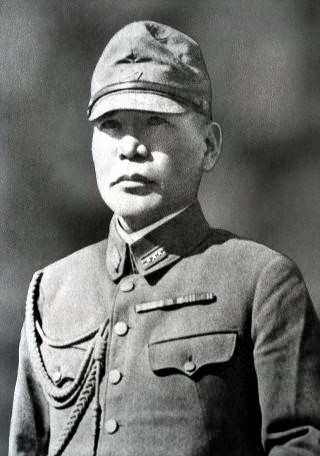 Nakagawa Kunio is an Imperial Japanese Army Colonel